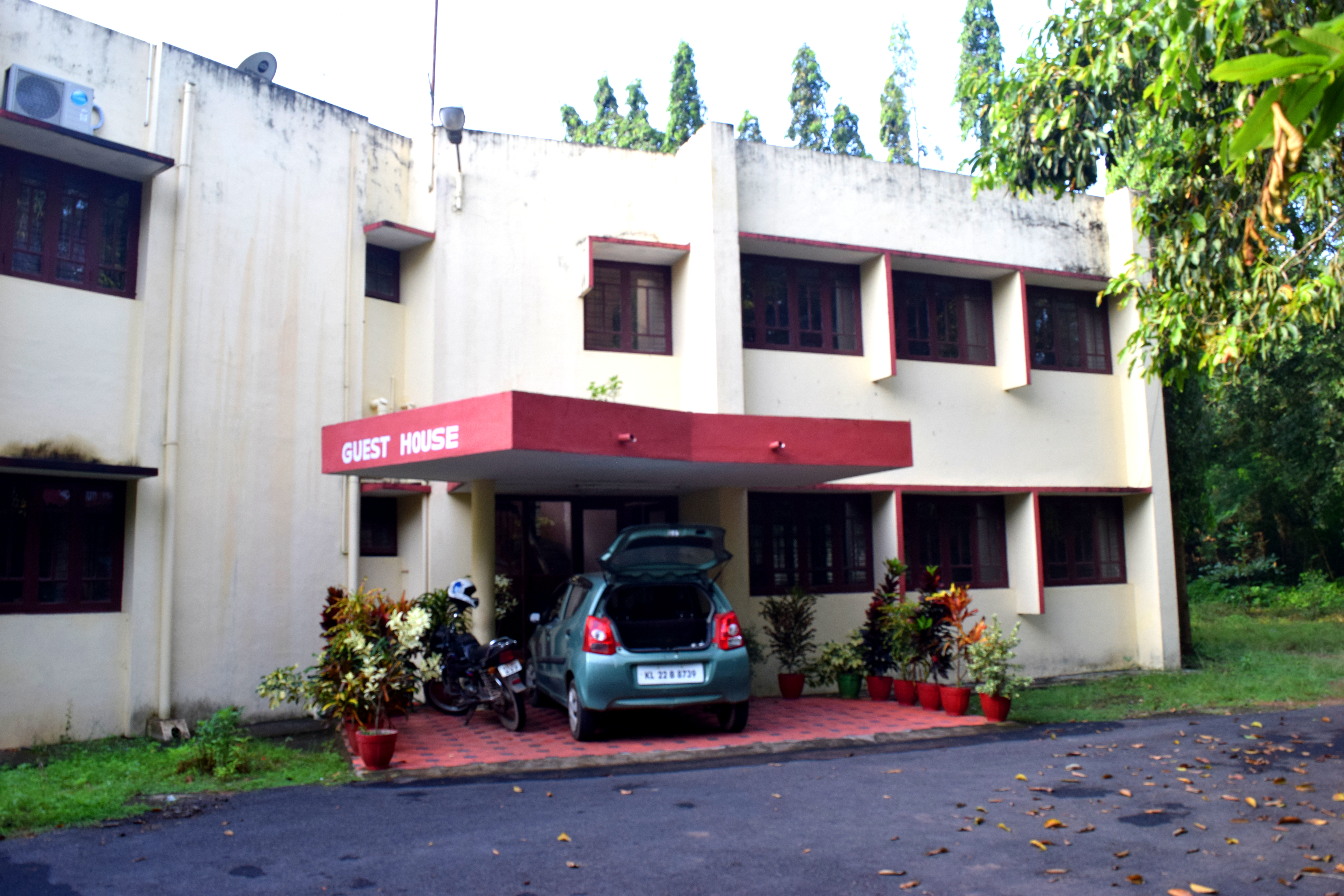 University of Kerala Guest House, Karyavattom, Thiruvananthapuram, Kerala, India